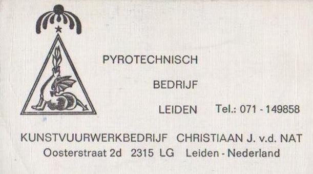 Businesscard Kunstvuurwerkbedrijf Christiaan J v.d. Nat, the logo is designed and drawn by Christiaan Johan van der Nat himself.